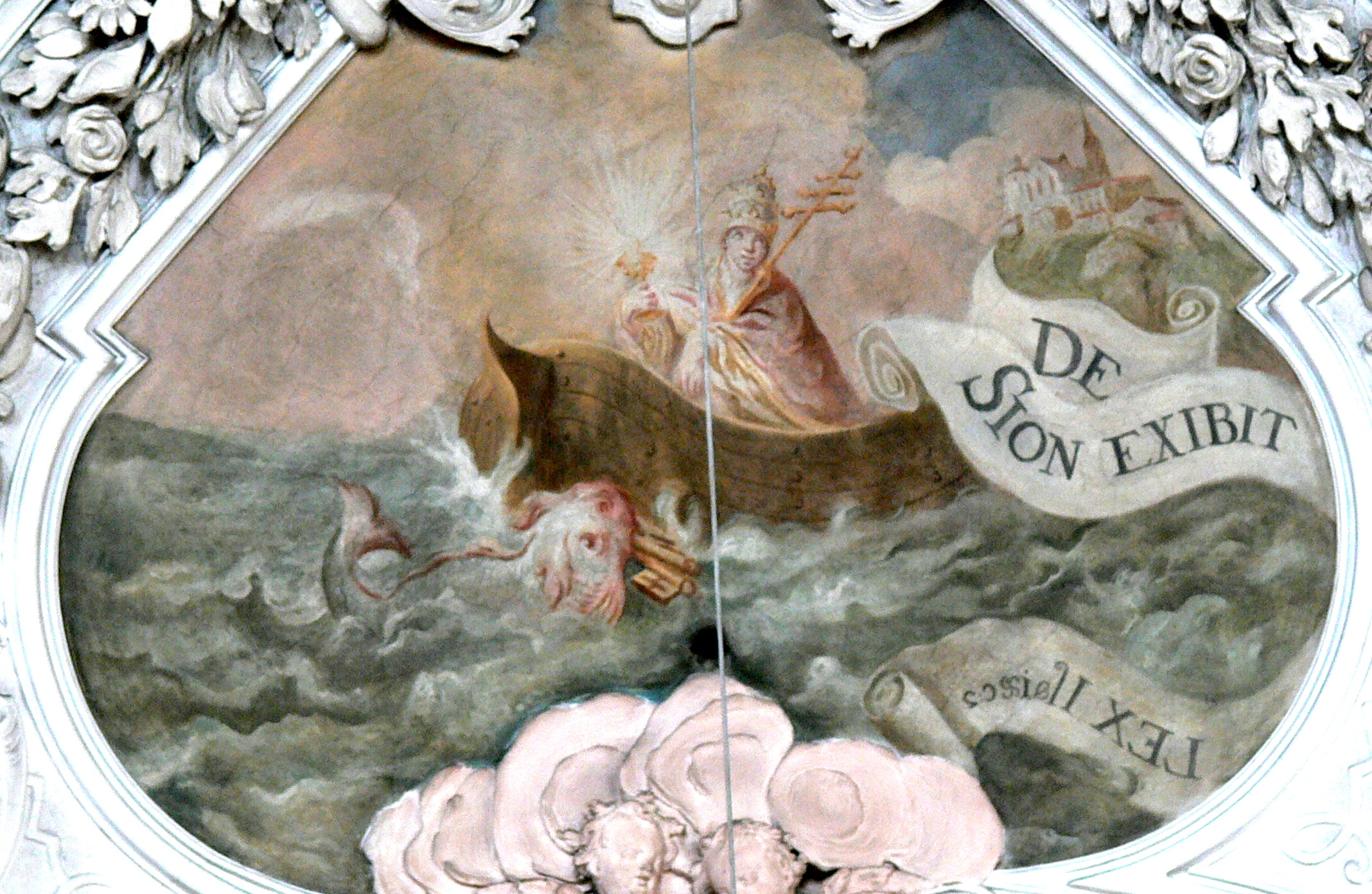 Metten ( Lower Bavaria ). Abbey church: Fresco ( 1722/24 ) by Wolfgang Andreas Heindl - Emblem of saint Benno with biblical quotation: "DE SION EXIBIT" ( He will go out from Zion ).